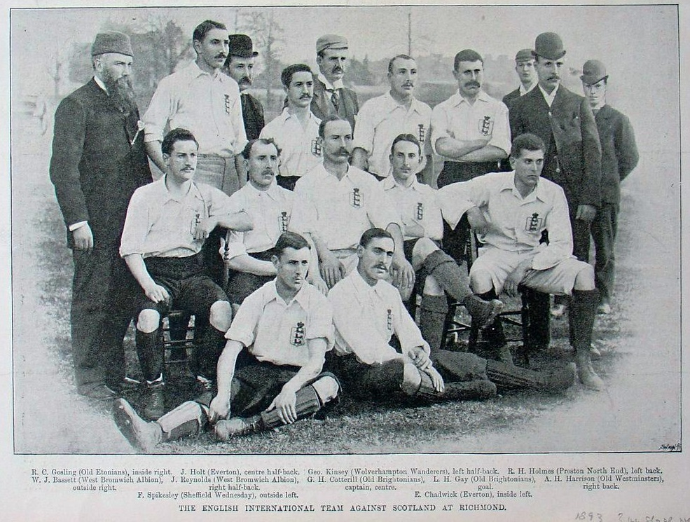 The England national football team before playing a match against Scotland at Richmond.